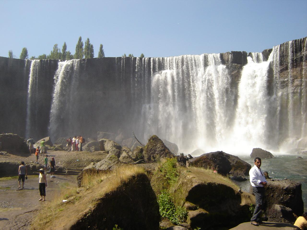 Salto del Laja in Chile. (Watermark with timestamp 2006 1 18 was removed by Regi51)